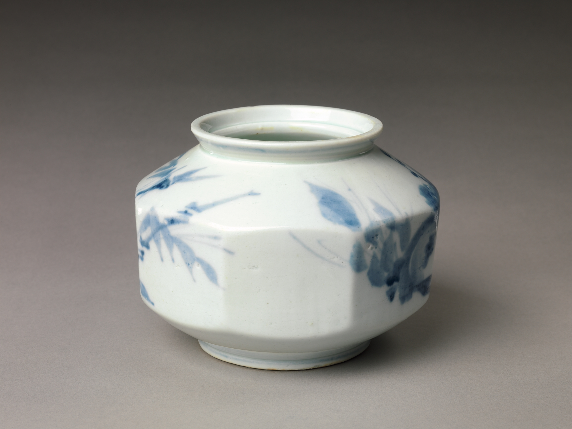 Korea; Jar; Ceramics